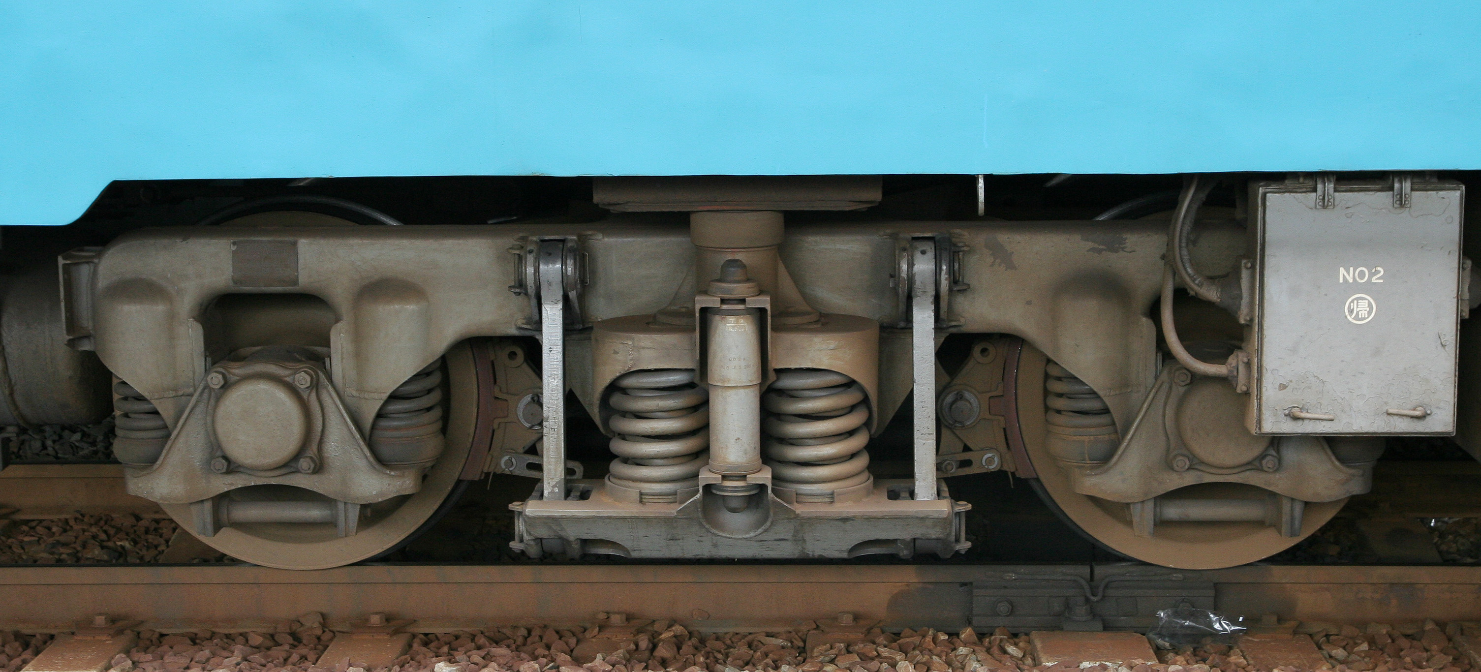 Shikoku Railway Company kiha58-216 TR51B